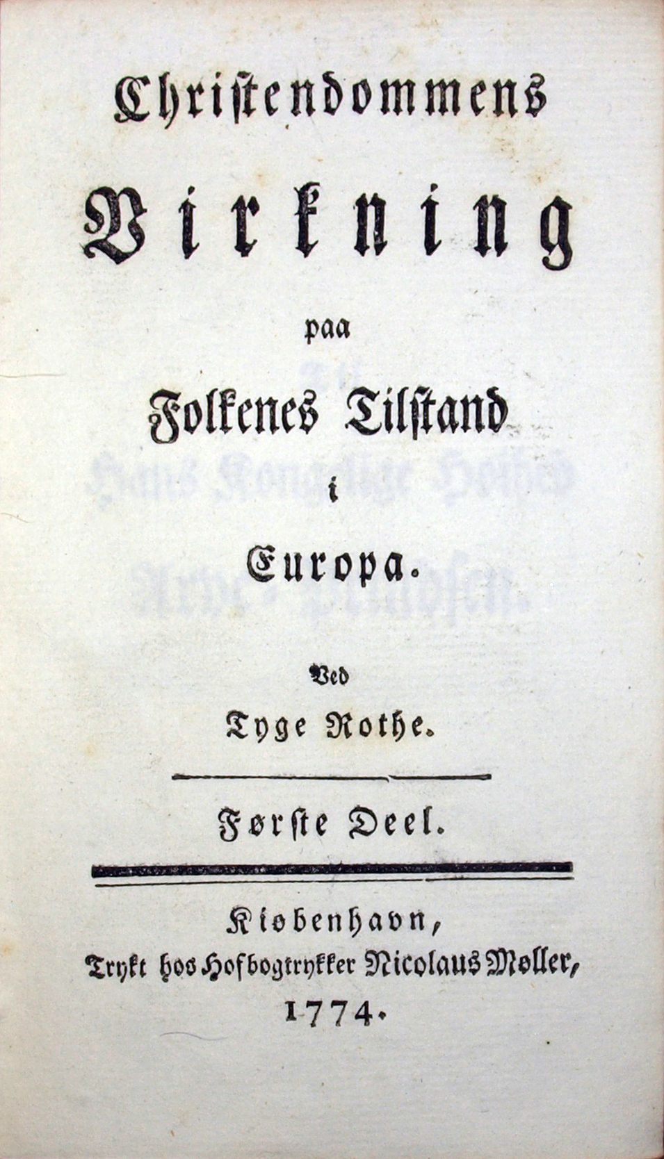 Title page of the first volume of Tyge Rothes "Christendommens Virkning" ("The Effect of Christianity") from 1774.